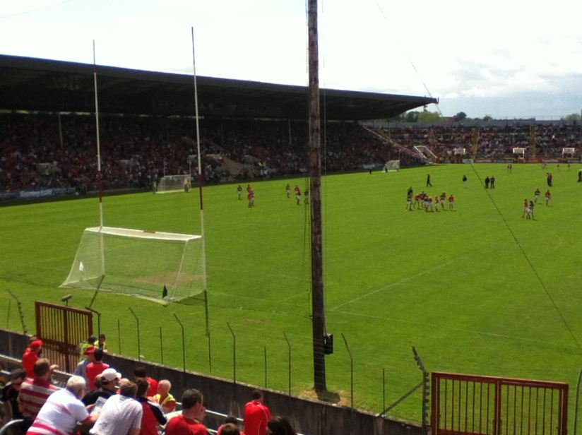 Cork vs Kerry Munster Semi Final 2012